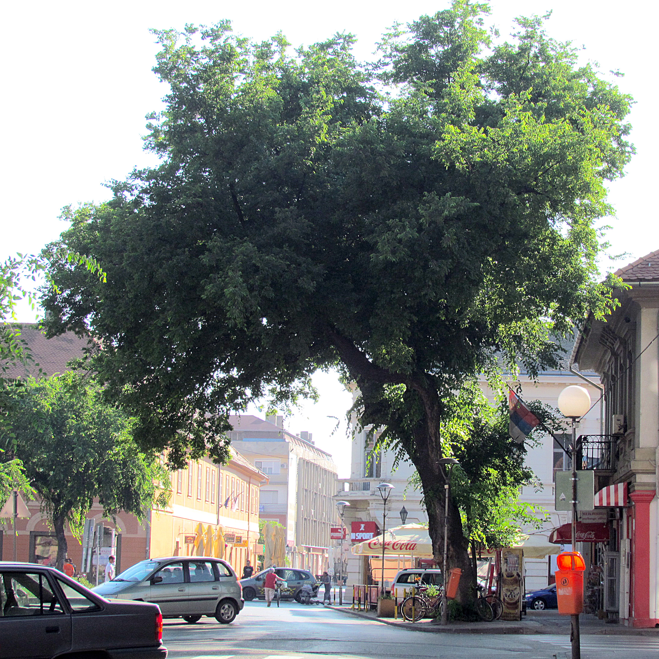 Old tree of Celtis occidentalis in Sombor, Serbia